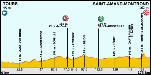 Tour de France 2013 - Profile Stage No. 13